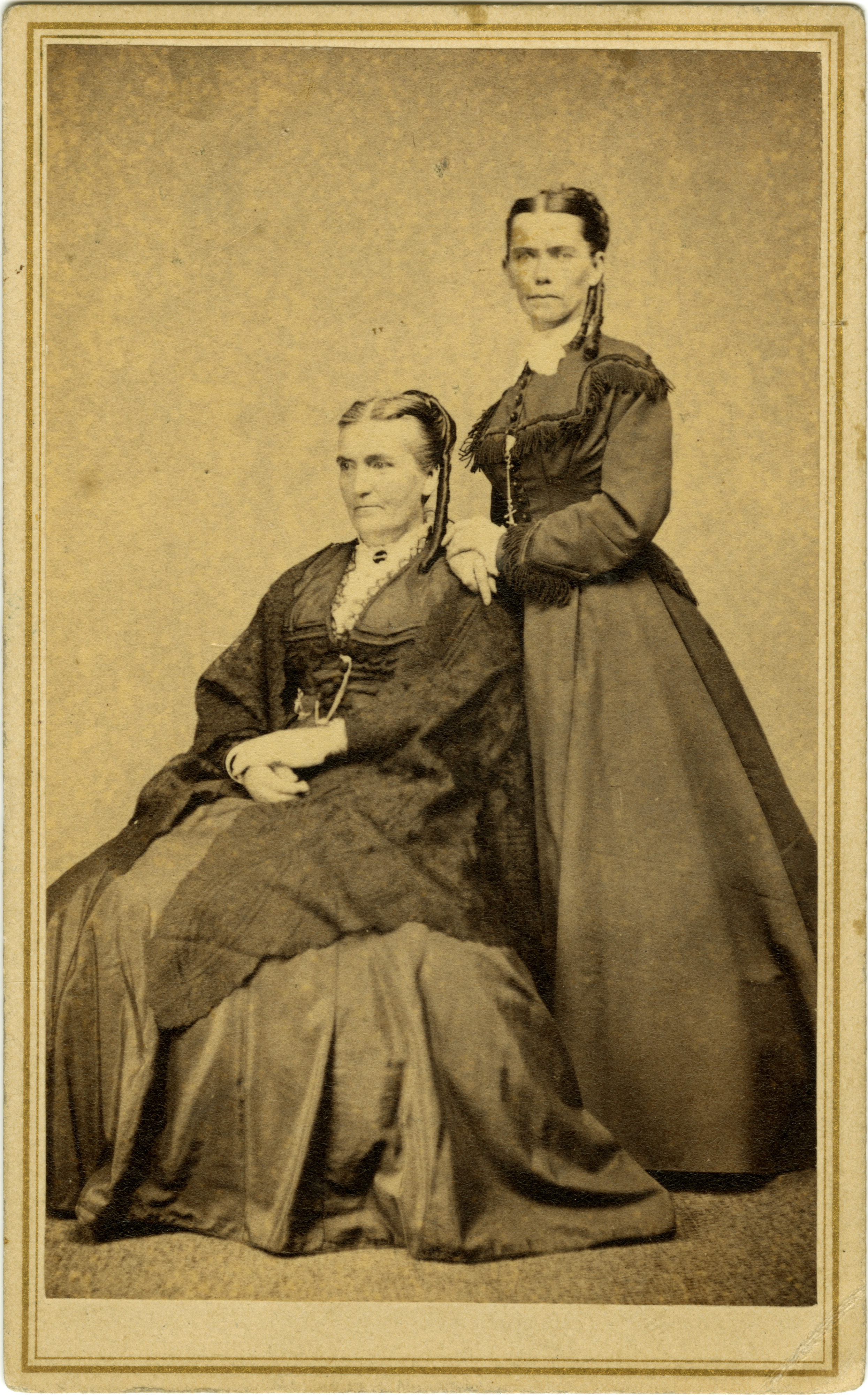 Frances Shimer and Cindarella Gregory, co-founders of Shimer College, in 1869. Credit: Northern Illinois University Archives.